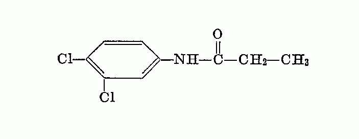 This is the chemical structure of 3,4-DCPA which was the subject of the patent infringement suit Monsanto v. Rohm & Haas